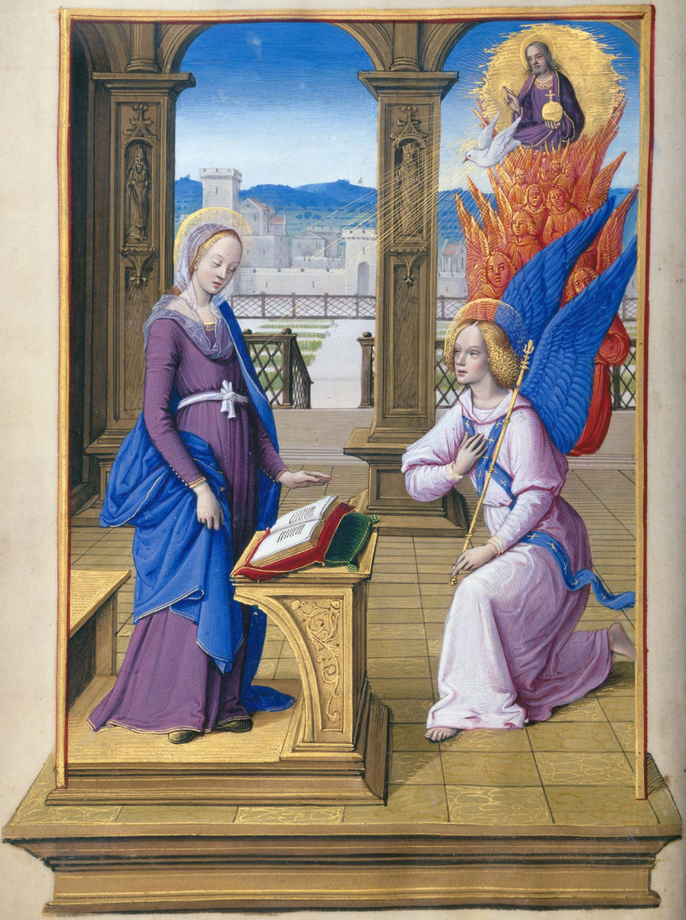 The Annunciation